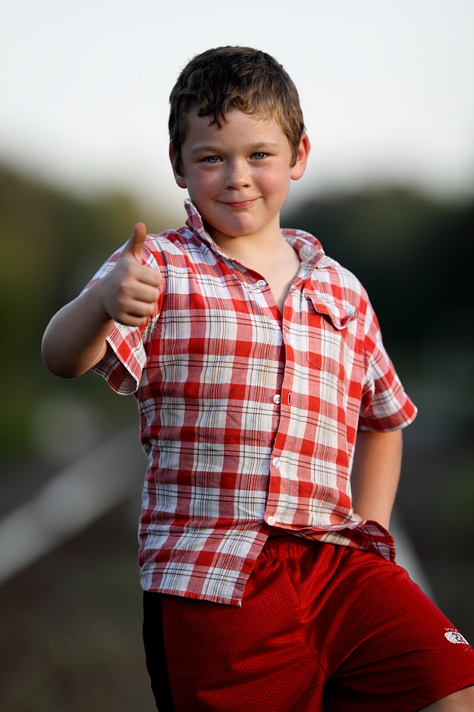 Thumbs up for bokeh